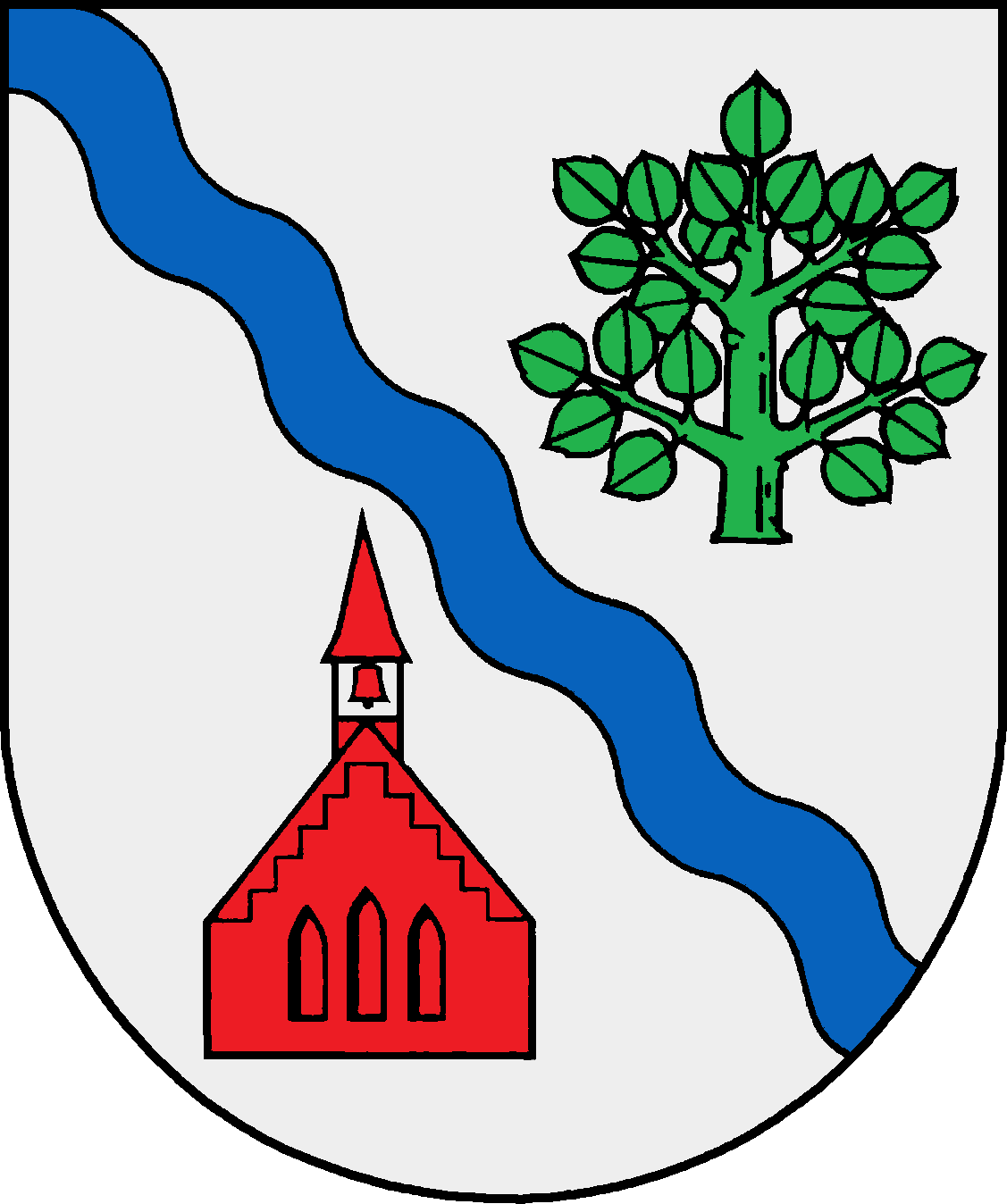 Coat of arms of the municipality Köthel in Schleswig-Holstein, Germany.